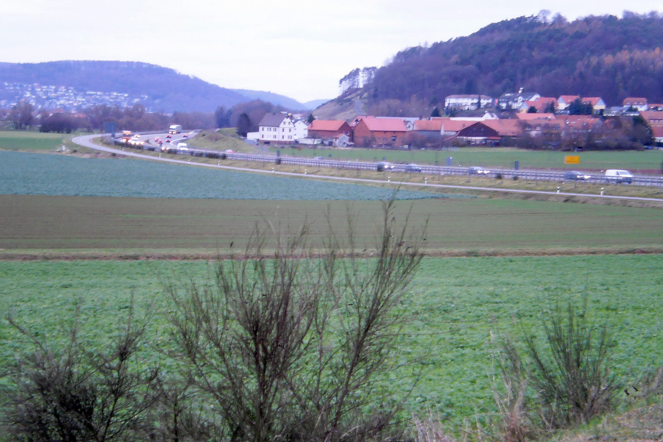 The village Weimar-Wolfshausen and the road Bundesstraße 3, in the valley of river Lahn between Marburg and Gießen, 2015-12-02.